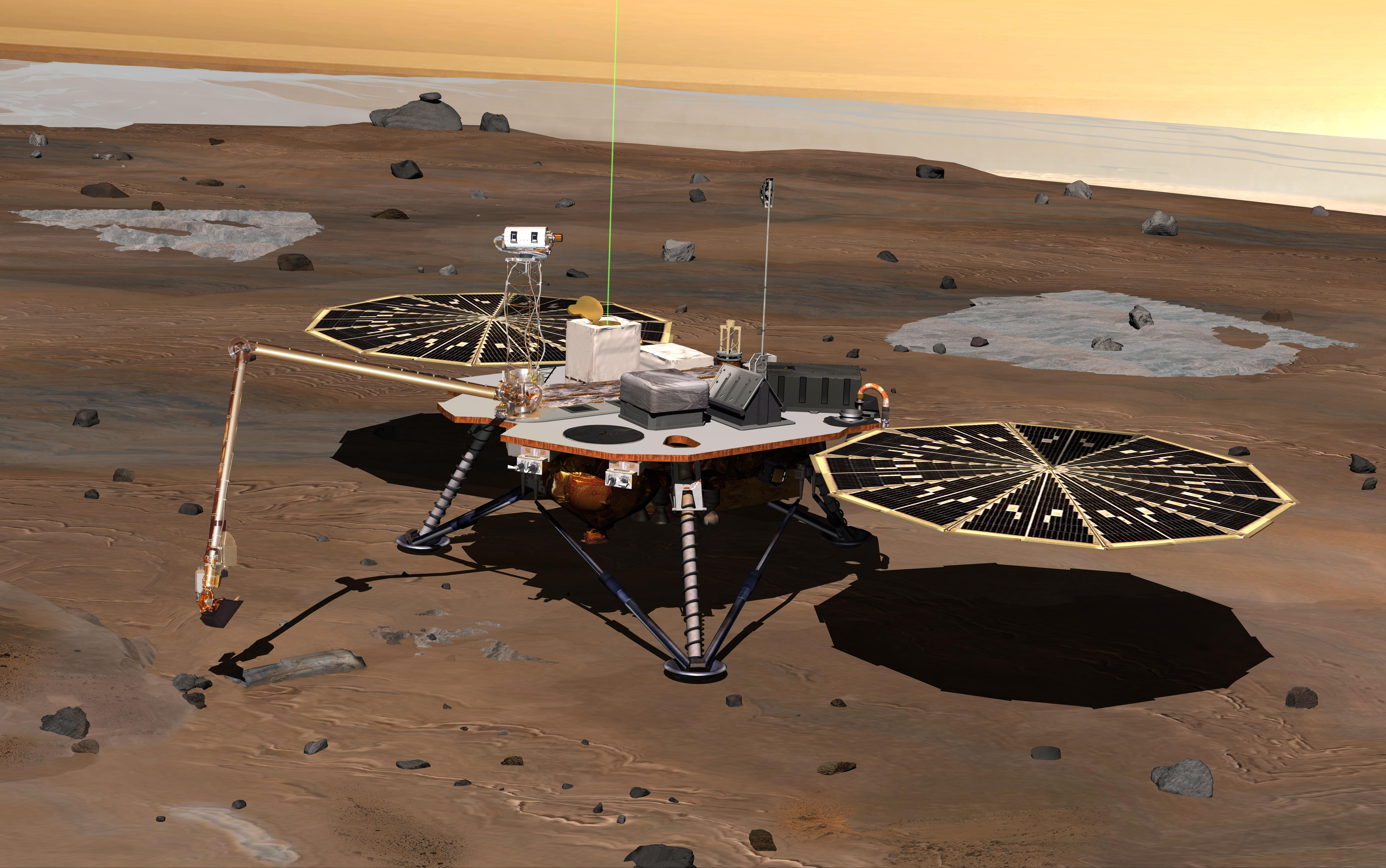 NASA's Phoenix Mars Lander monitors the atmosphere overhead and reaches out to the soil below in this artist's depiction of the spacecraft fully deployed on the surface of Mars. Phoenix has been assembled and tested for launch in August 2007 from Cape Canaveral Air Force Station, Fla., and for landing in May or June 2008 on an arctic plain of far-northern Mars. The mission responds to evidence returned from NASA's Mars Odyssey orbiter in 2002 indicating that most high-latitude areas on Mars have frozen water mixed with soil within arm's reach of the surface. Phoenix will use a robotic arm to dig down to the expected icy layer. It will analyze scooped-up samples of the soil and ice for factors that will help scientists evaluate whether the subsurface environment at the site ever was, or may still be, a favorable habitat for microbial life. The instruments on Phoenix will also gather information to advance understanding about the history of the water in the icy layer. A weather station on the lander will conduct the first study Martian arctic weather from ground level. The vertical green line in this illustration shows how the weather station on Phoenix will use a laser beam from a lidar instrument to monitor dust and clouds in the atmosphere. The dark "wings" to either side of the lander's main body are solar panels for providing electric power. The Phoenix mission is led by Principal Investigator Peter H. Smith of the University of Arizona, Tucson, with project management at NASA's Jet Propulsion Laboratory and development partnership with Lockheed Martin Space Systems, Denver. International contributions for Phoenix are provided by the Canadian Space Agency, the University of Neuchatel (Switzerland), the University of Copenhagen (Denmark), the Max Planck Institute (Germany) and the Finnish Meteorological institute. JPL is a division of the California Institute of Technology in Pasadena.